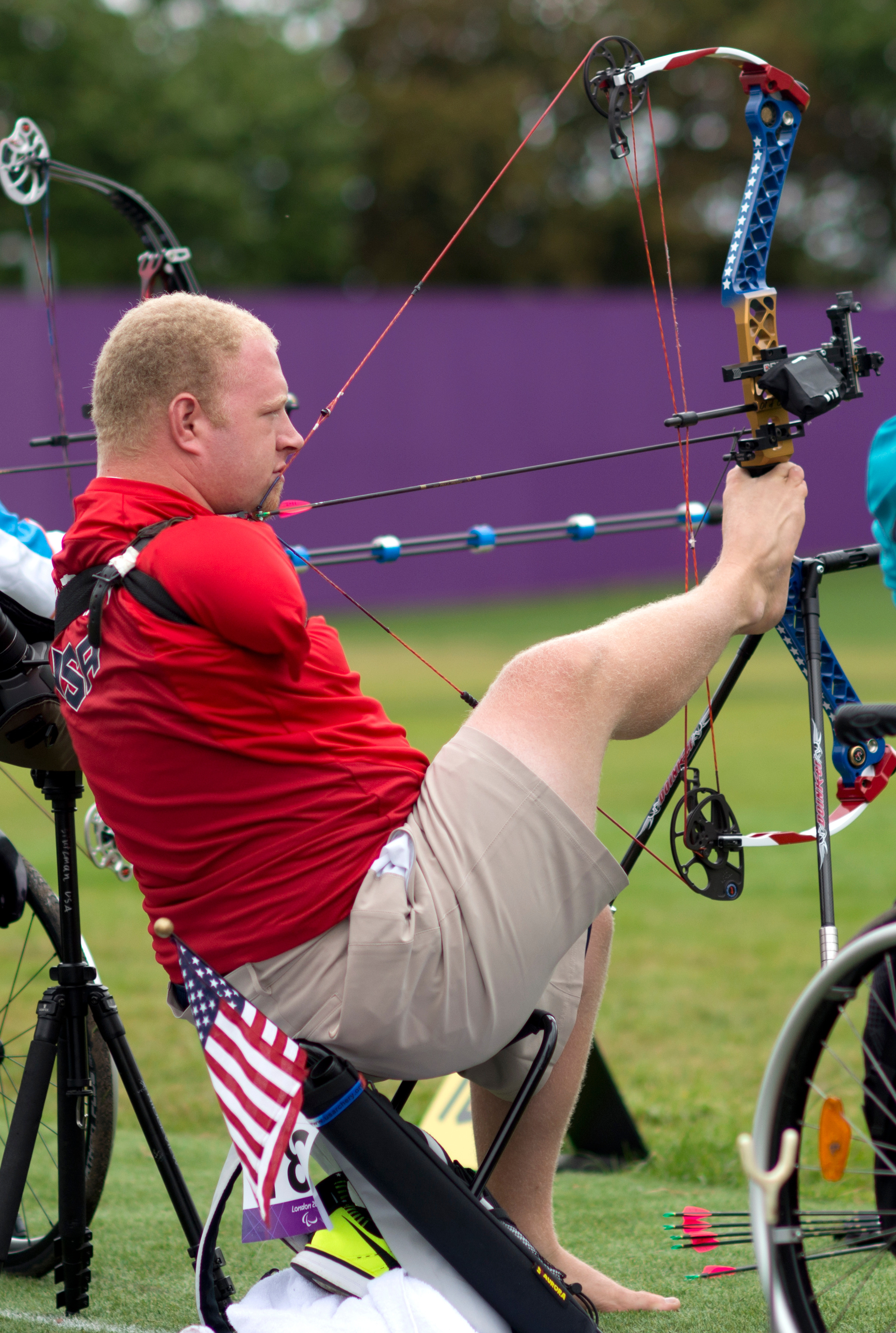 U.S. archer Matt Stutzman participates in the 2012 Paralympic Games in London, Aug. 30, 2012.